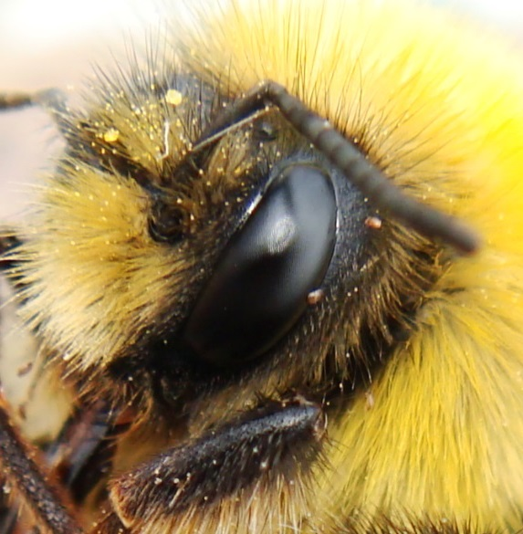 Bombus lucorum drone (male) with two phoretic female deutonymphs of (bumble)bee mite Kuzinia laevis (Syn.: Tyrophagus laevis) mites near the eye.